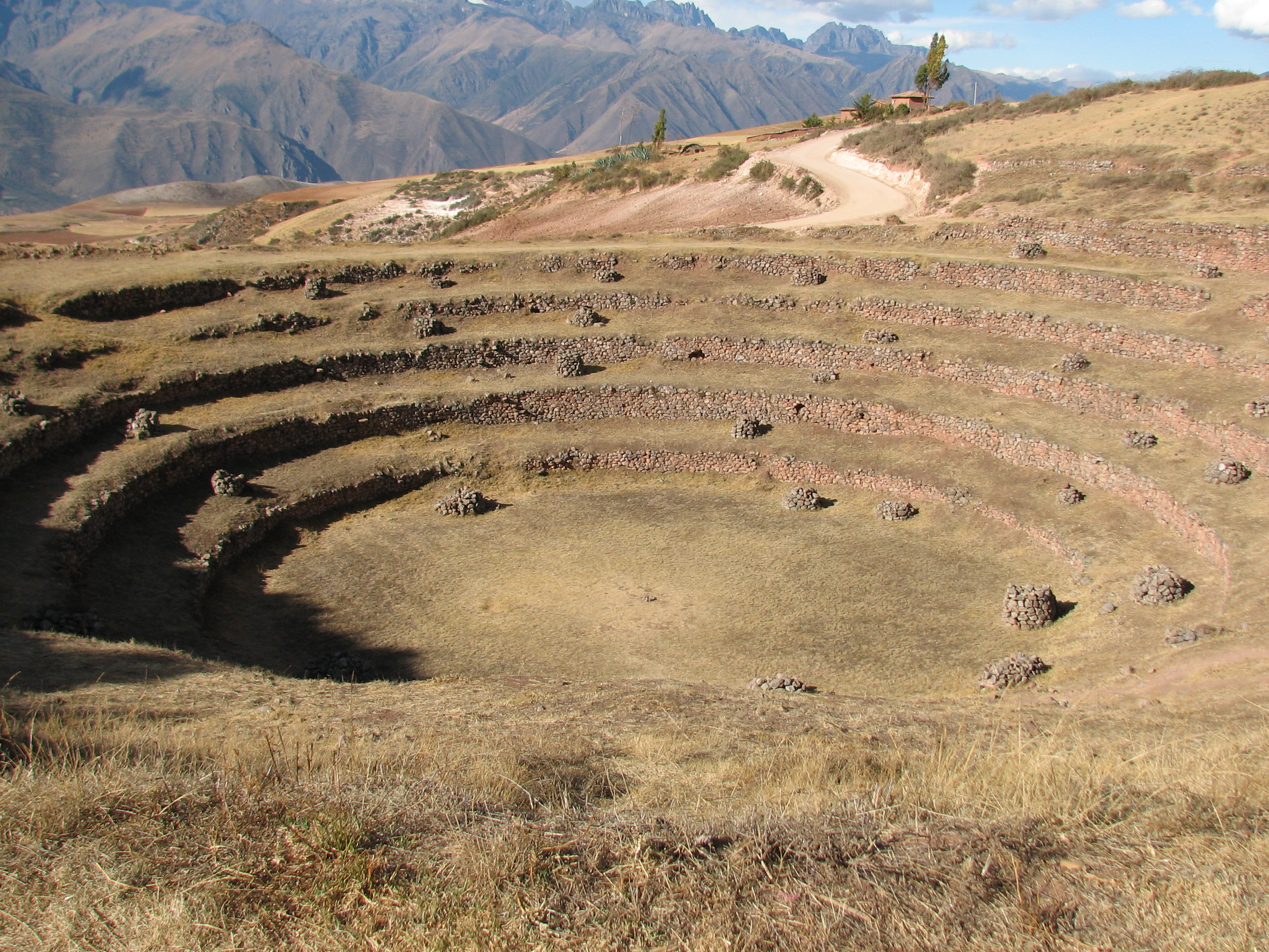 Moray archaeological site in Peru